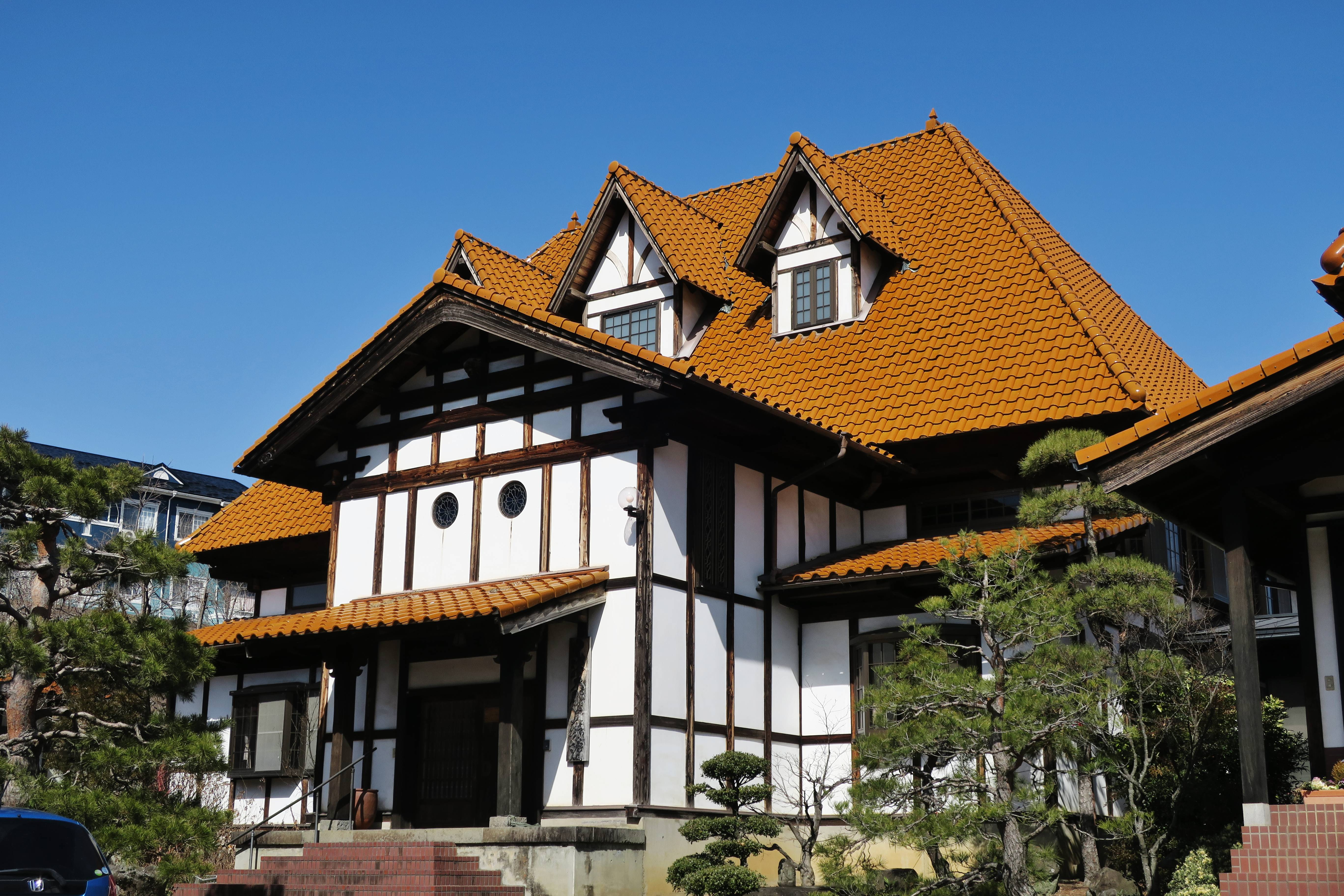 Ozawa Wooden Sculpture Art Museum (Ueda, Nagano).